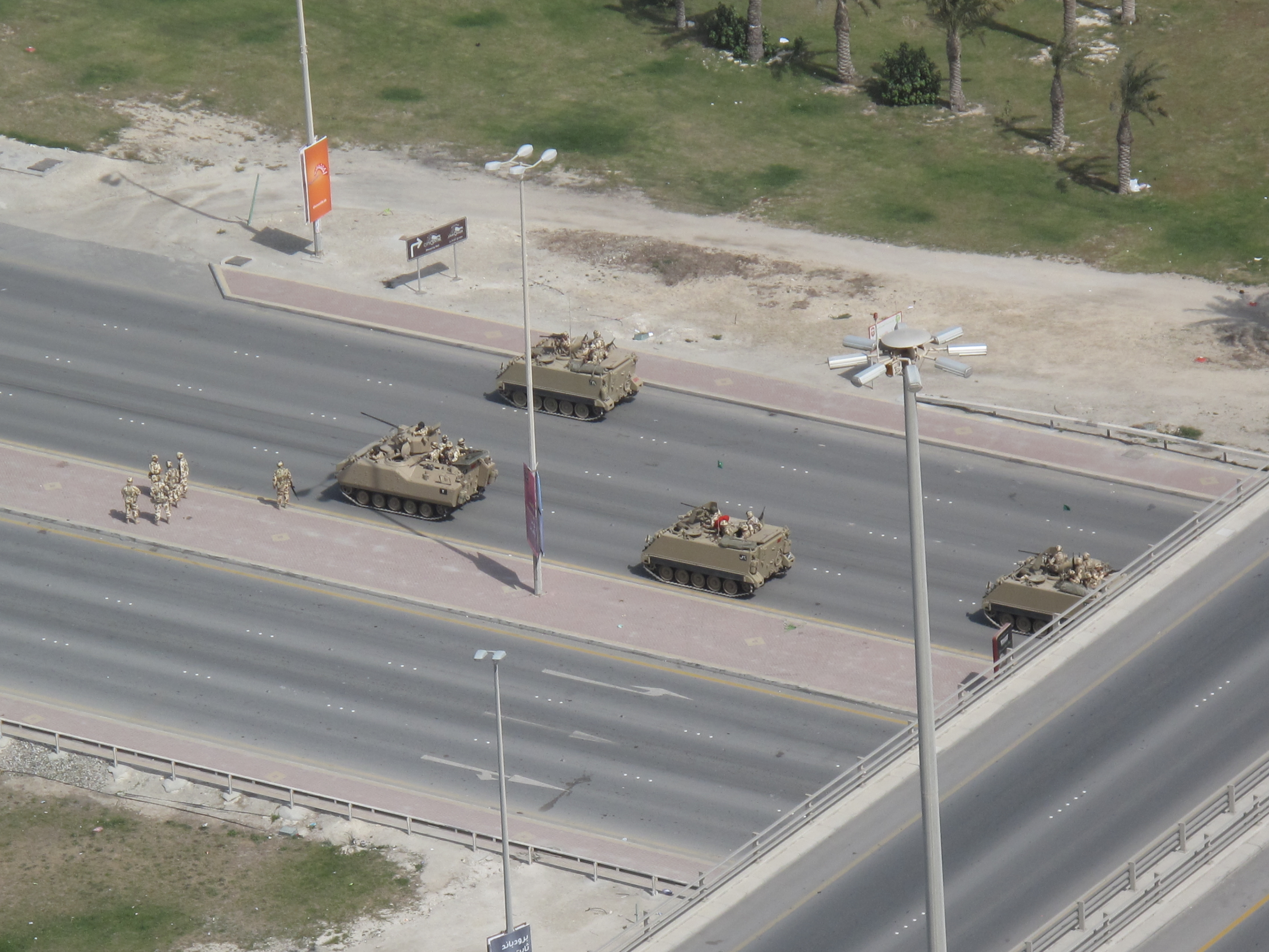 Army checkpoint north of Pearl Roundabout